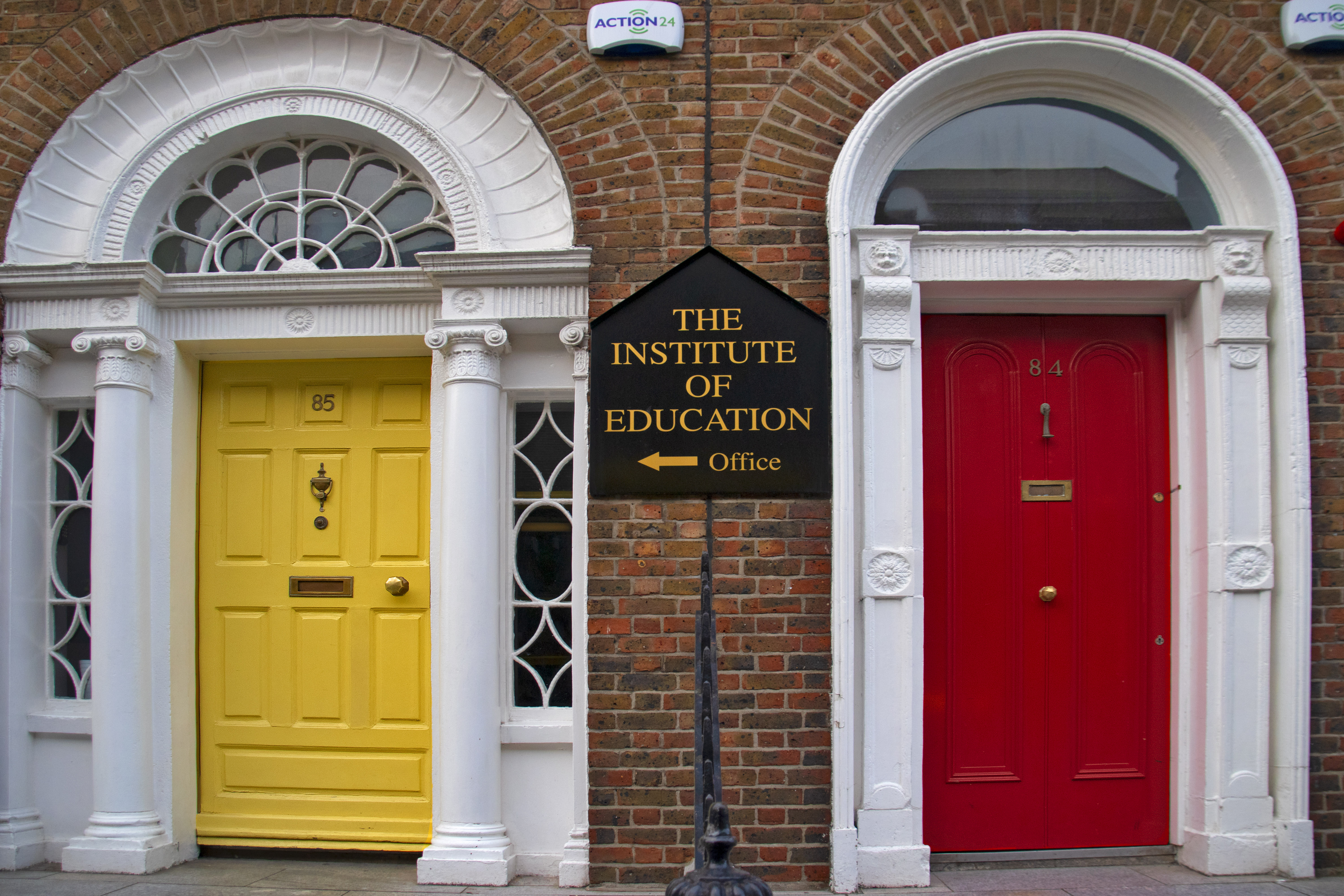 The Institute of Education -- 85 Leeson Street Lower Dublin (Ireland) April 2018